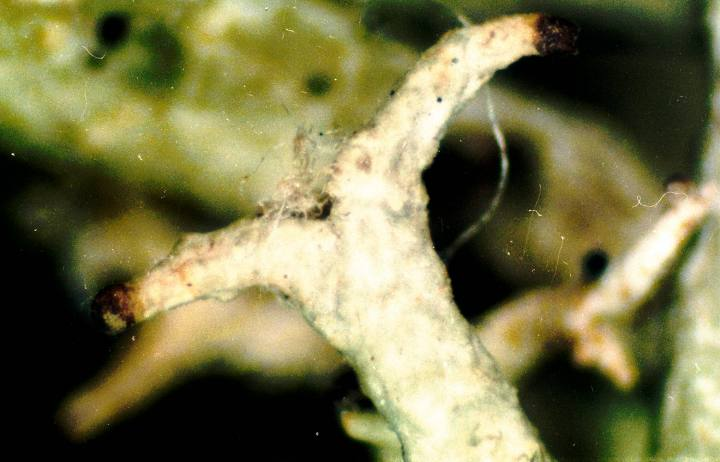 Cladonia furcata (Huds.) Schrad., 1794 (photograph of a herbarium specimen taken through a dissecting microscope (x40) showing an open axil in a podetium) Growing in an open area with dwarfed Picea rubens at Dolly Sods Wilderness Area, Monongahalea National Forest, West Virginia, USA; collected and identified by Elmer G. Worthley (No. LH-37, 13 Oct 1984); specimen is now in the Lichen Herbarium of the New York Botanical Garden.